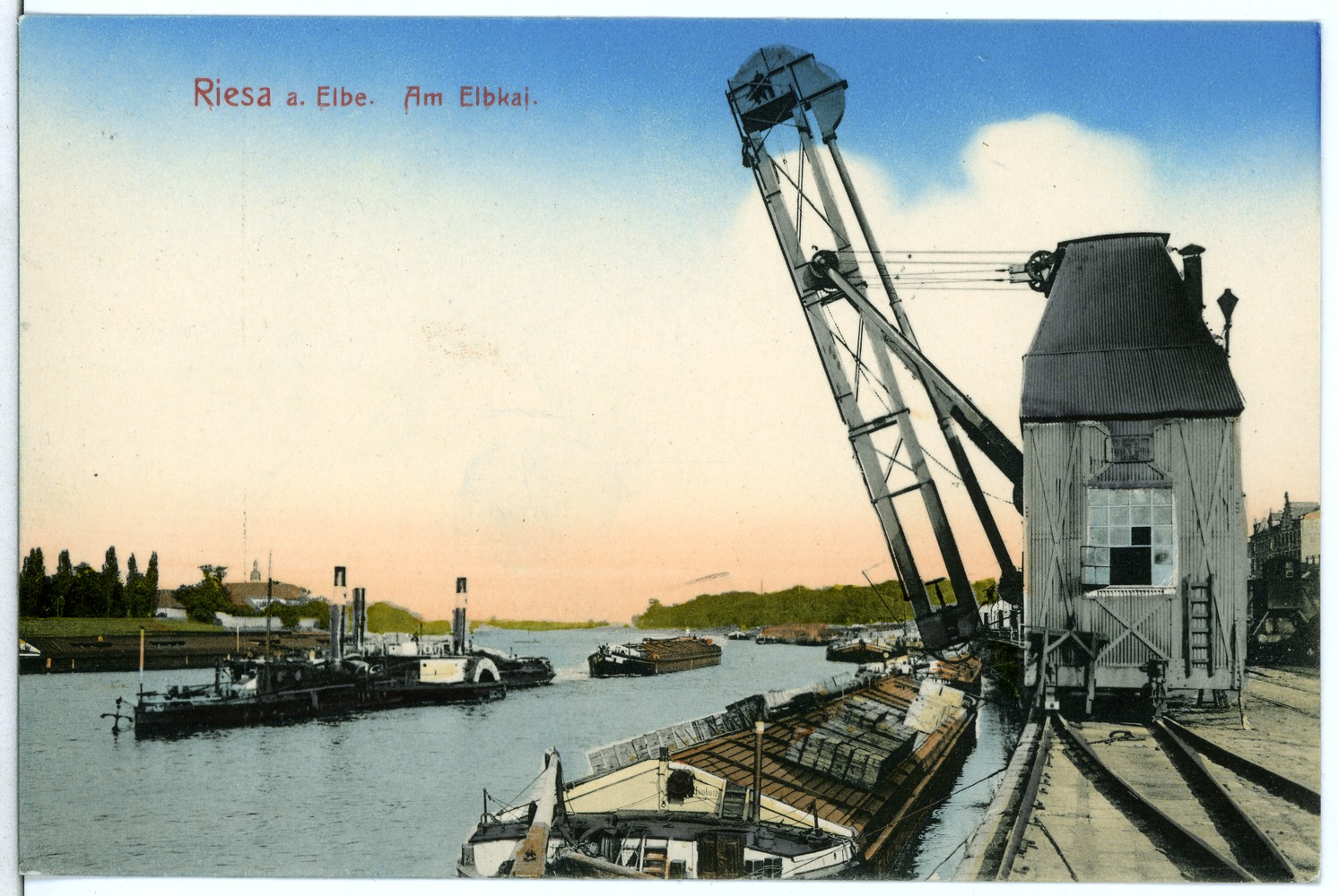 This postcard is from publisher Brück & Sohn in Meißen ( This postcard has a unique number 10582 and is available in a higher resolution at the publisher. This images was uploaded in a cooperation project between Wikipedians and the publisher.